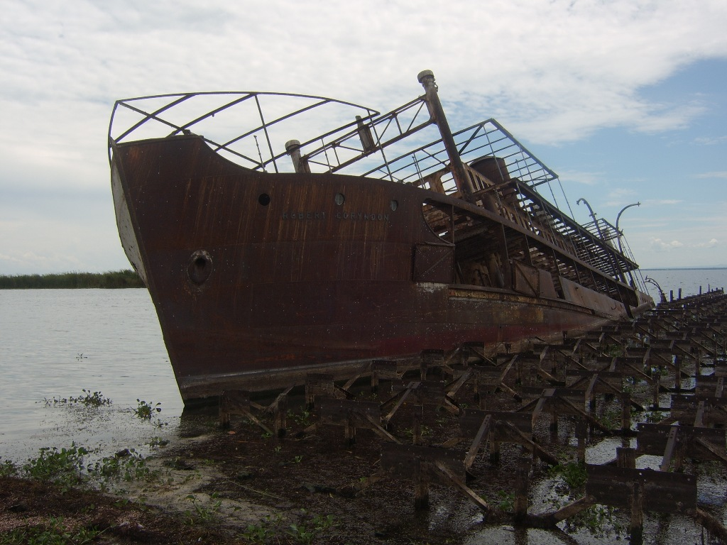 Jpeg image of the wreck at Butiaba, Buliisa, Uganda